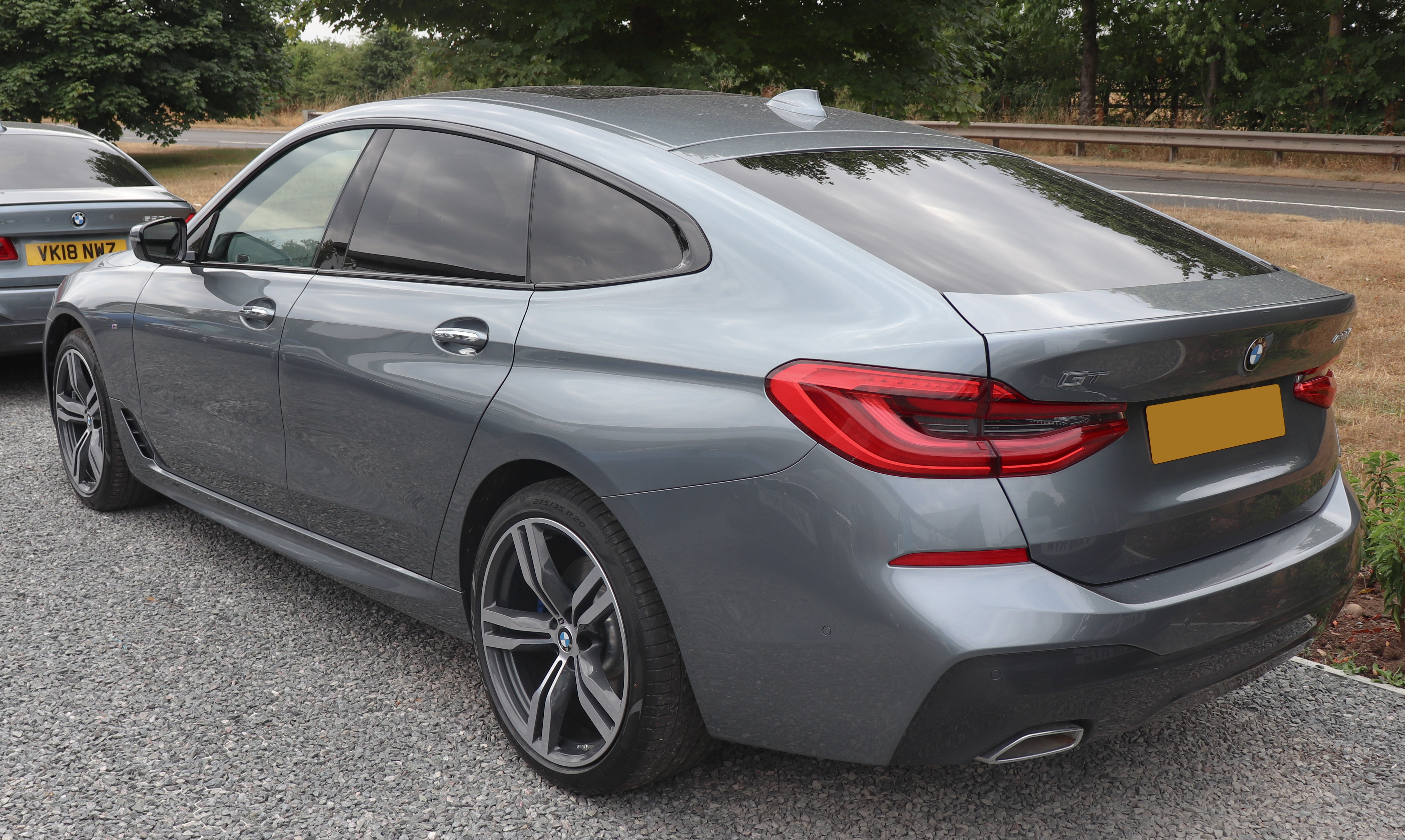 2018 BMW 630d GT M Sport Automatic 3.0 Rear Taken in Leamington Spa